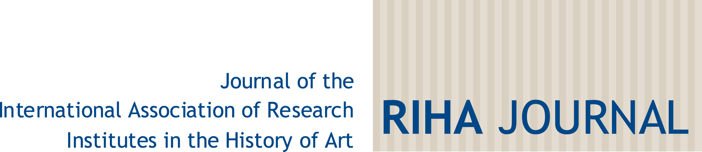 Logo RIHA Journal